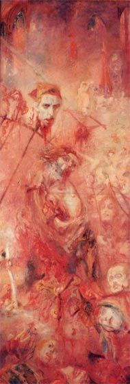 No title